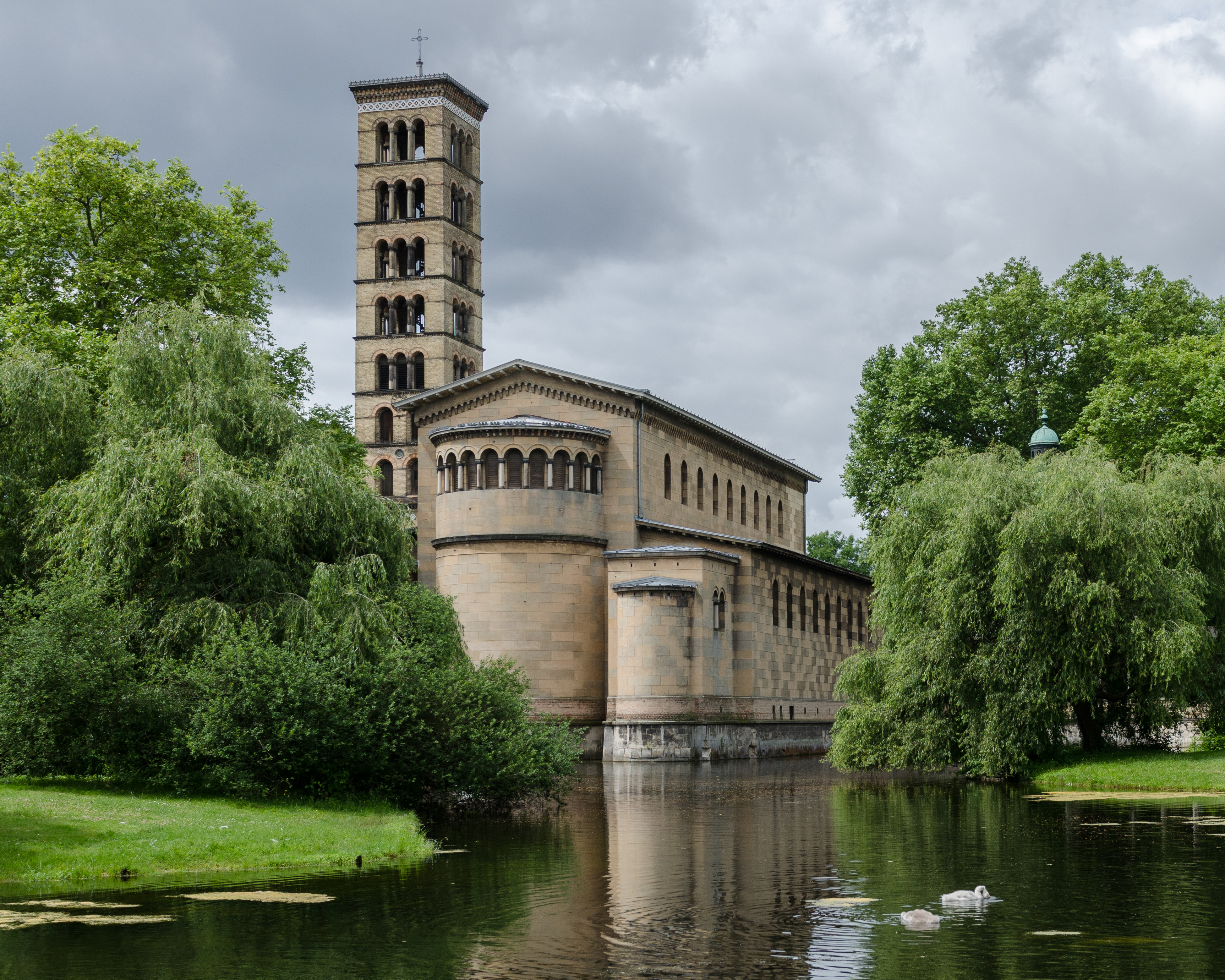 The Friedenskirche in Potsdam as seen from northeast